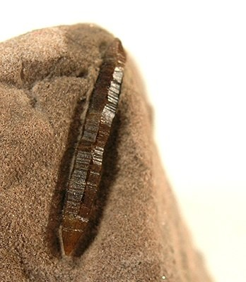 Parisite-(Ce) Locality: Snowbird mine, Fish Creek, Alberton, Mineral County, Montana, USA (Locality at ) Size: 3.9 x 3.8 x 3.4 cm. This slender crystal is very elongated, 1.8 cm long and only a few mm wide. Ex. Martin Zinn Collection.